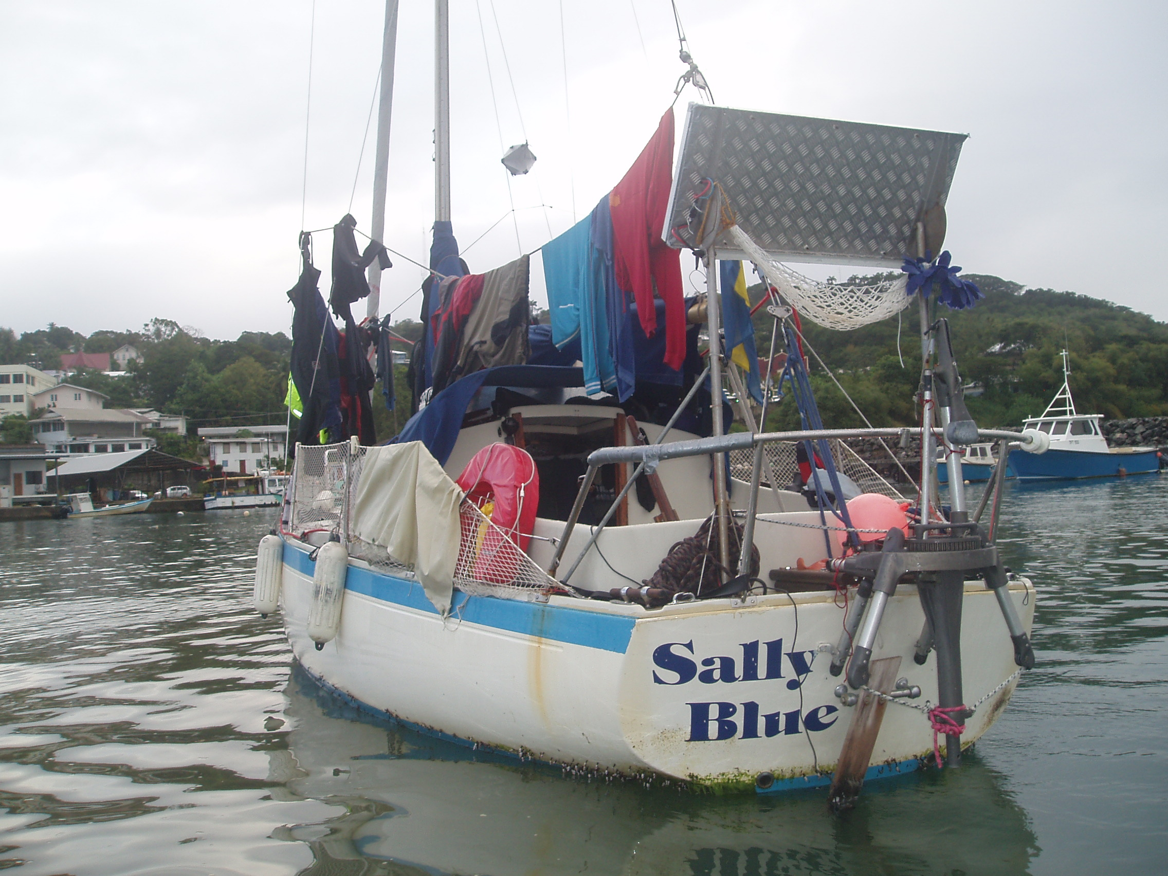 Picture of the swedish sailingboat Sally Blue, type Albin Vega